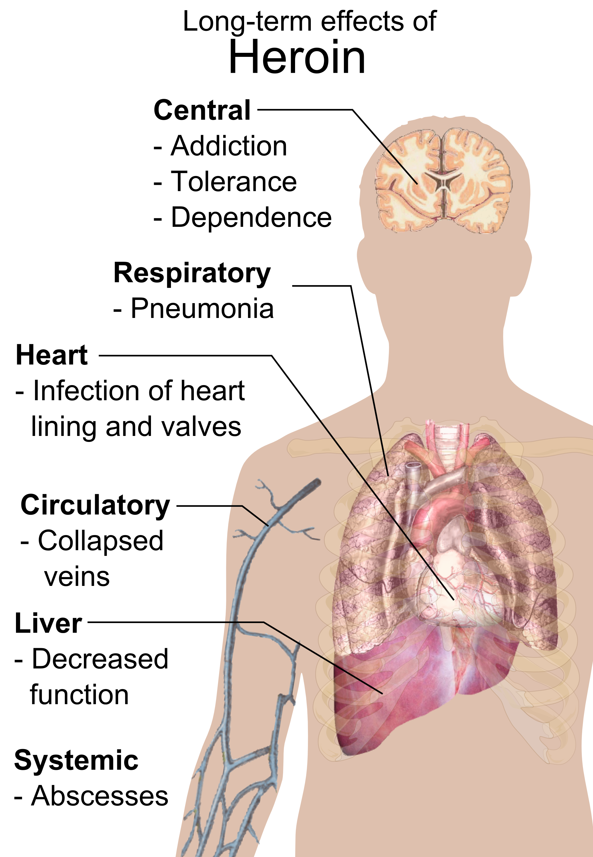 Main long-term effects of heroine, including the effects of the contaminants common in illegal heroin. (See Wikipedia:Heroin#Usage and effects). References: Office of National Drug Control Policy (ONDCP): Heroin Facts & Figures Retrieved on 11 February, 2009 To discuss image, please see Template talk:Human body diagrams